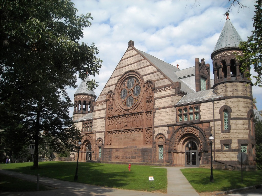 Nassau Hall, Princeton University, Princeton University campus Princeton